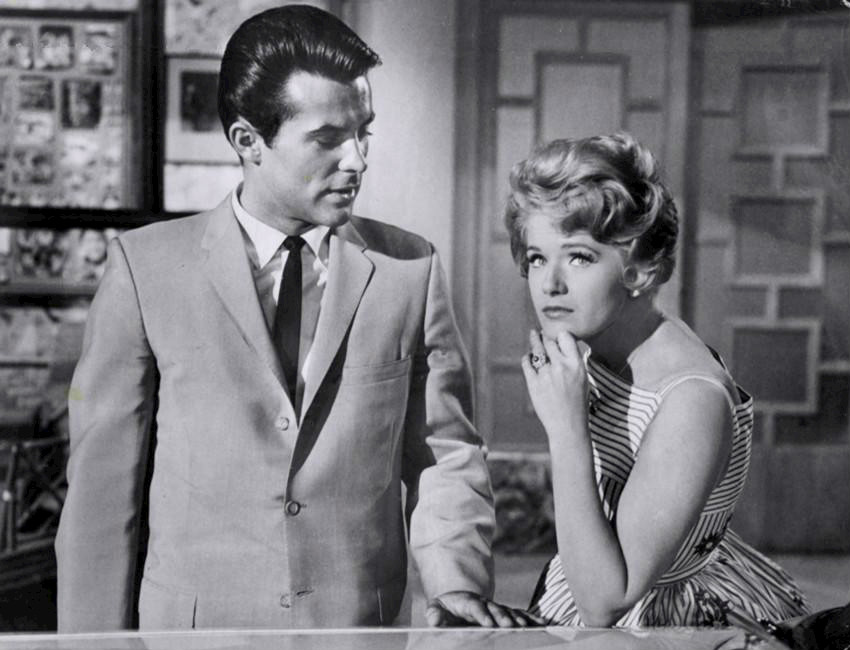 Photo of Robert Conrad and Connie Stevens from the television program Hawaiian Eye.